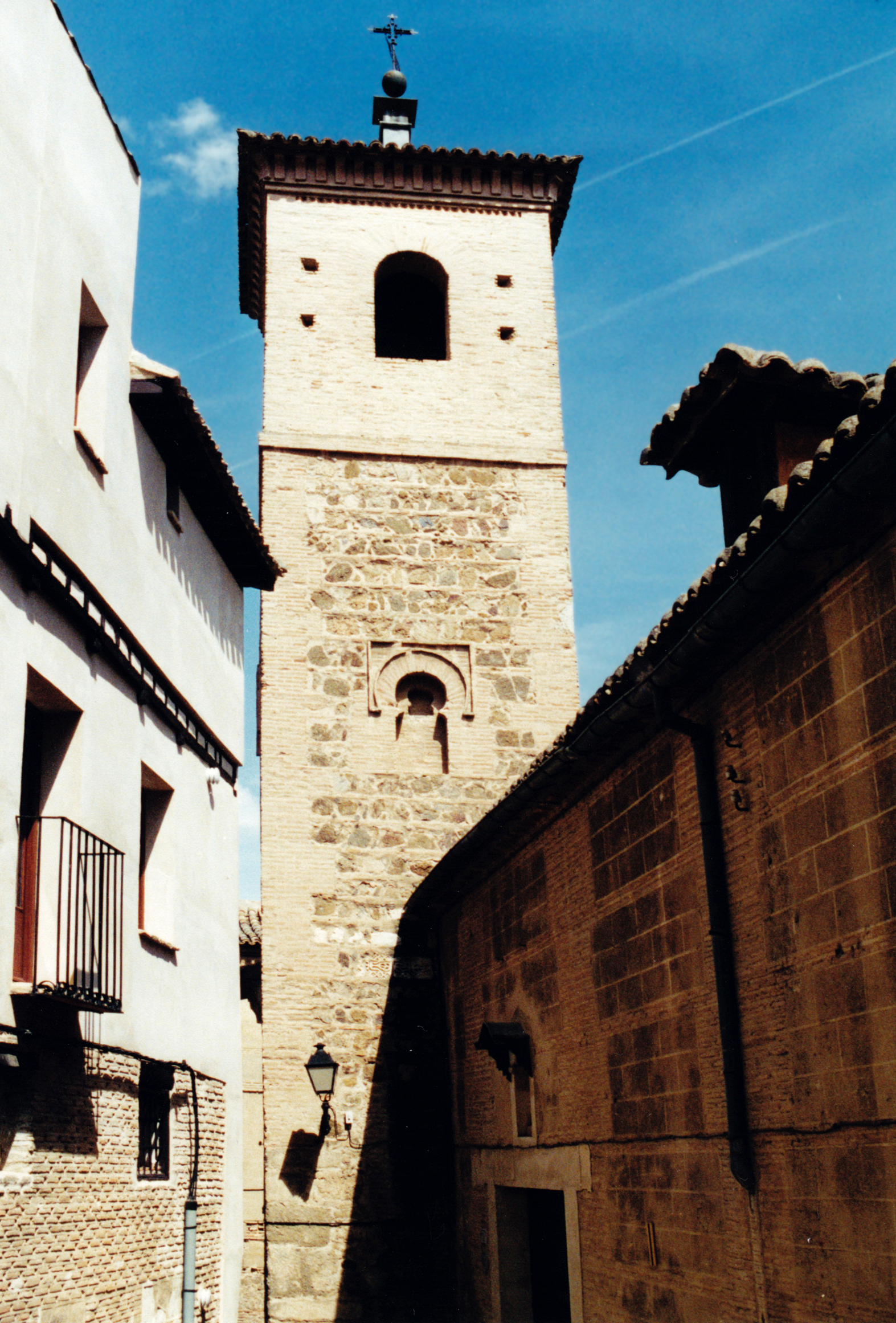 Spain - Toledo - Church of San Bartolomé